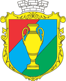 Coat of arms of city Baranivka (Ukrainian: Баранівка